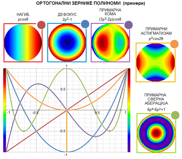 ОРТОГОНАЛНИ ЗЕРНИКЕ ПОЛИНОМИ, ПРИМЕРИ